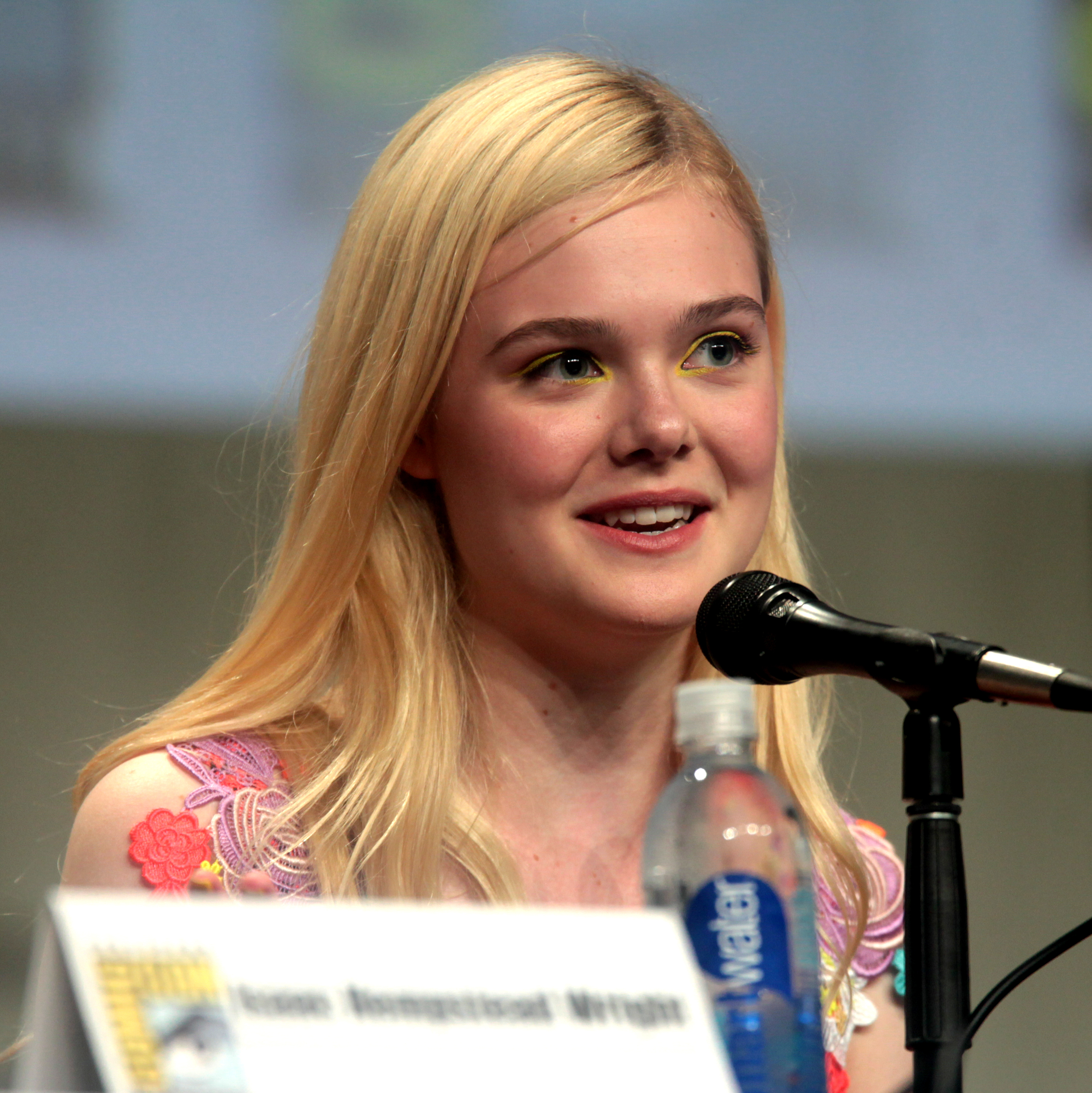 Elle Fanning speaking at the 2014 San Diego Comic Con International, for "The Boxtrolls", at the San Diego Convention Center in San Diego, California.